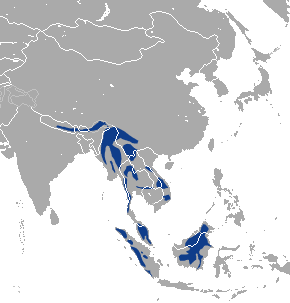 Marbled Cat (Pardofelis marmorata) range